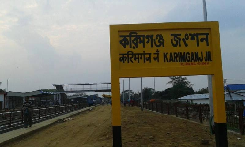 New BG station, Karimganj Junction, still under construction, as on March 30th, 2016